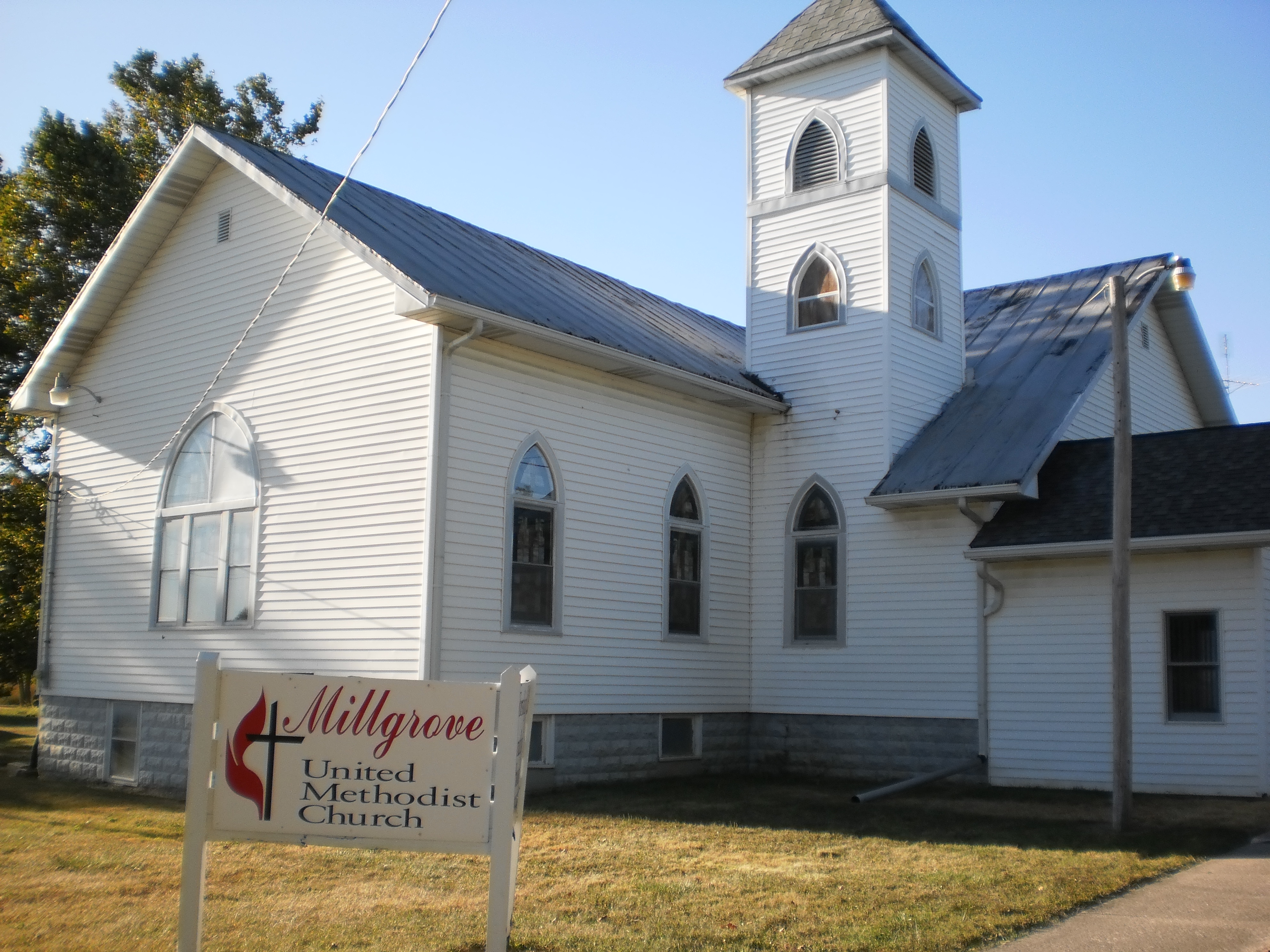 Church in Blackford County village of Millgrove Indiana